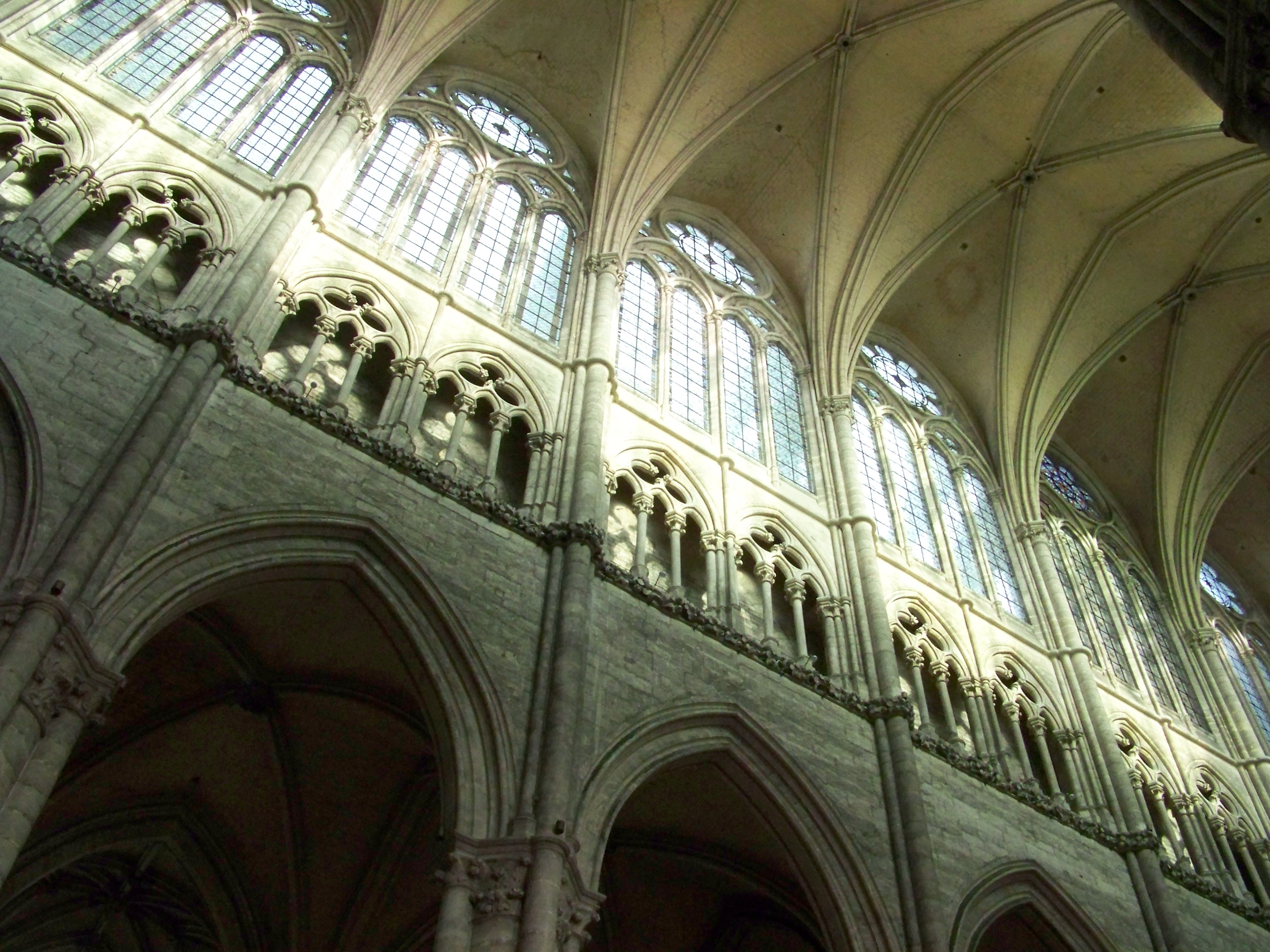 Great archs, triforium, clerestory and vaults of the cathedral Notre-Dame in Amiens, France